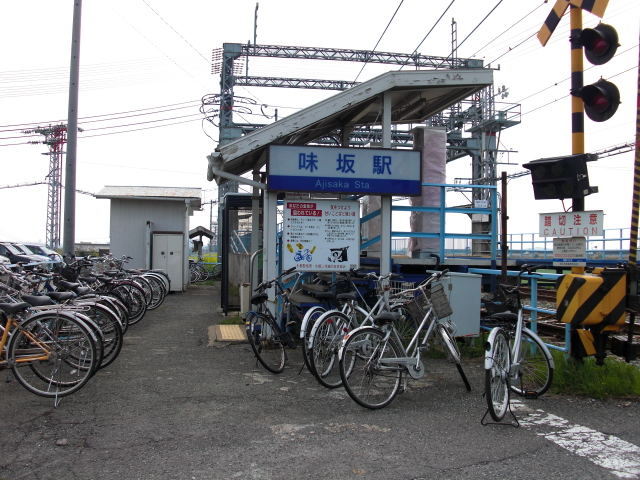 Nishitetsu Ajisaka Station